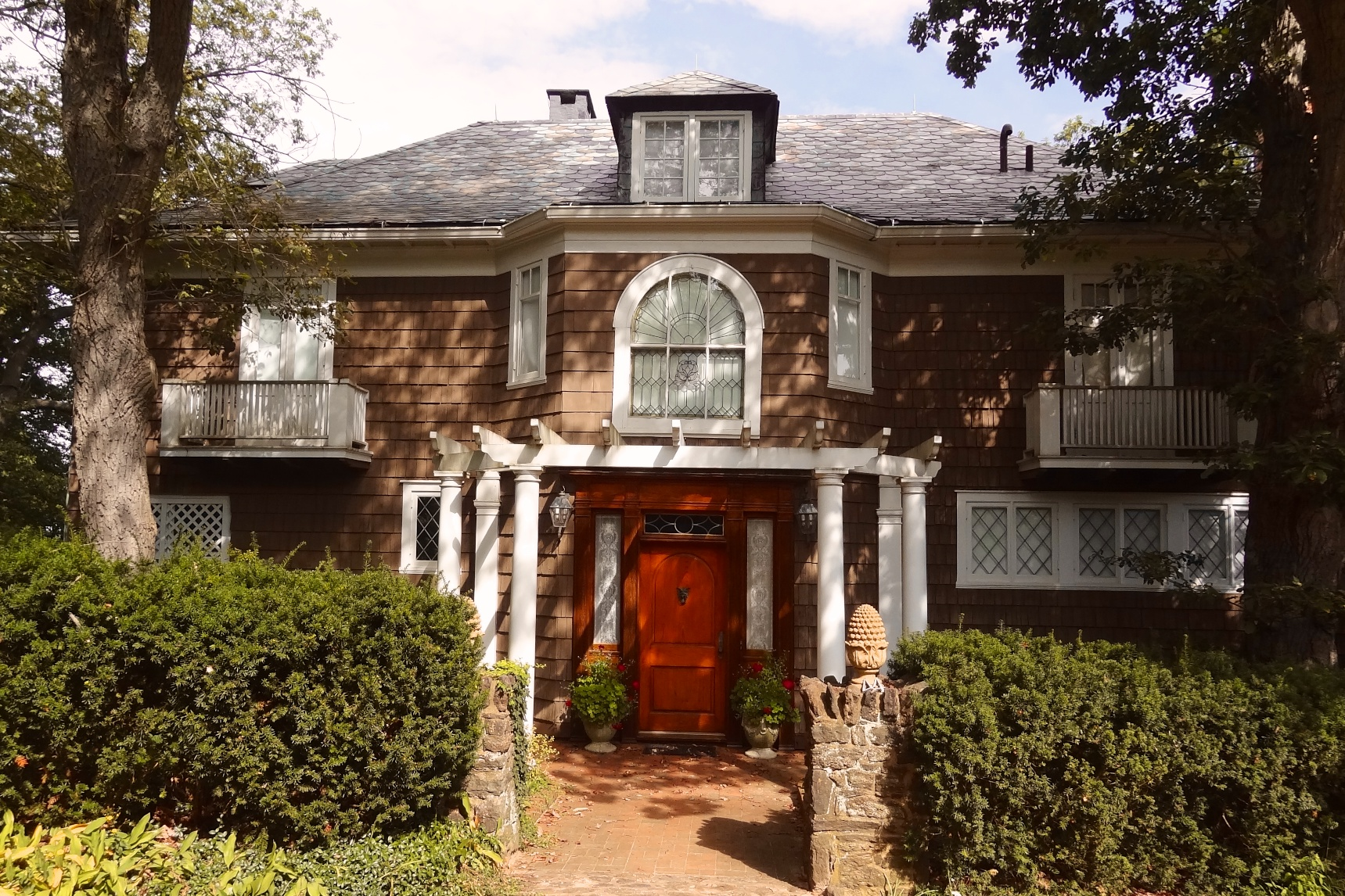 Water Witch Club Historic District, Roughly bounded by NJ 36, Water Wich Dr., Sea View Terrace, Park Way, Windlass Path and Serpentine Dr. Middletown Township